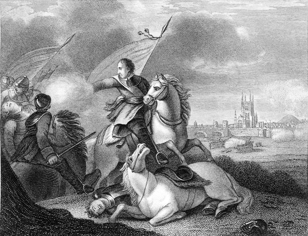 Battle of Worcester